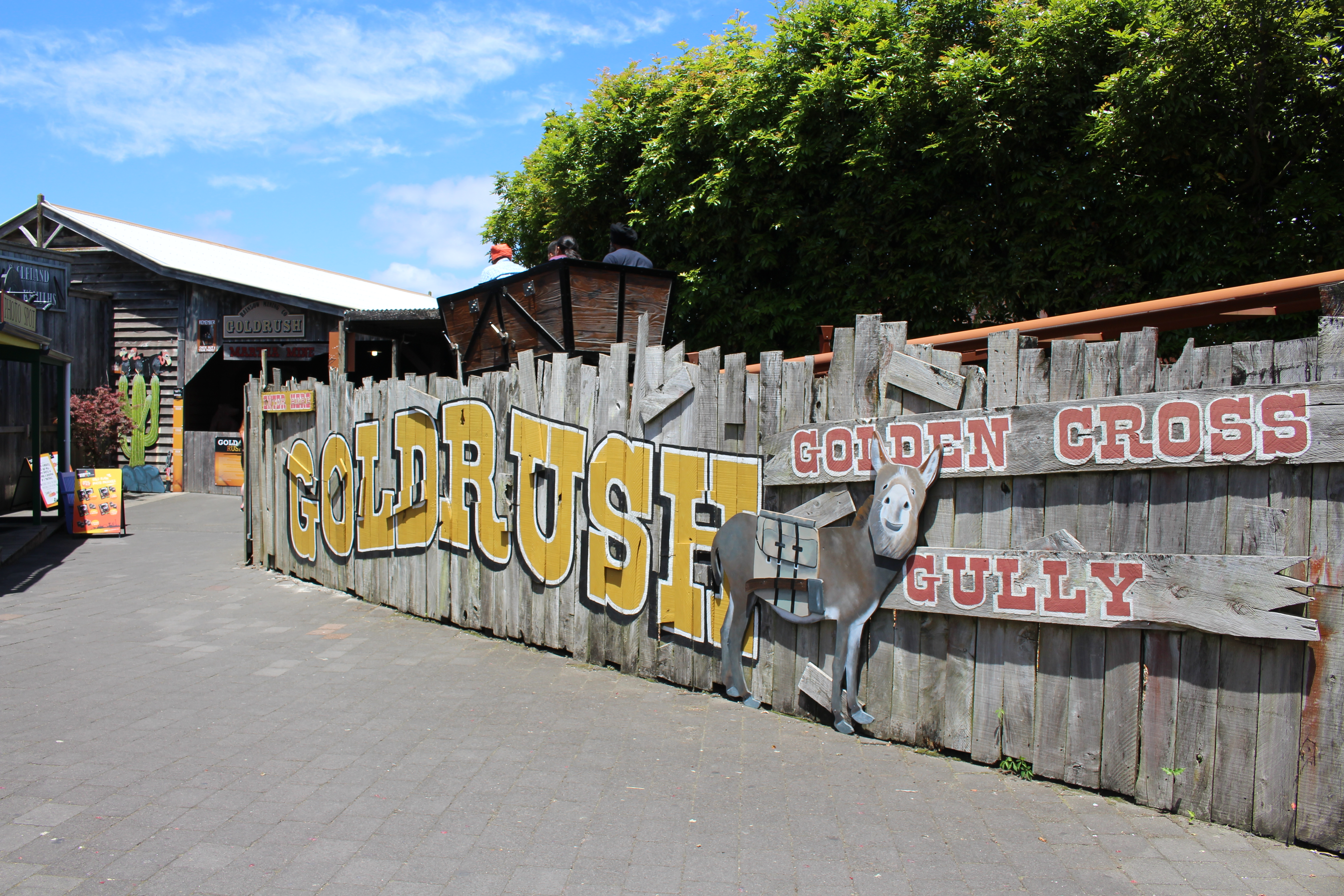 Rainbow's End Goldrush - Golden Cross Gully and Martha Mine